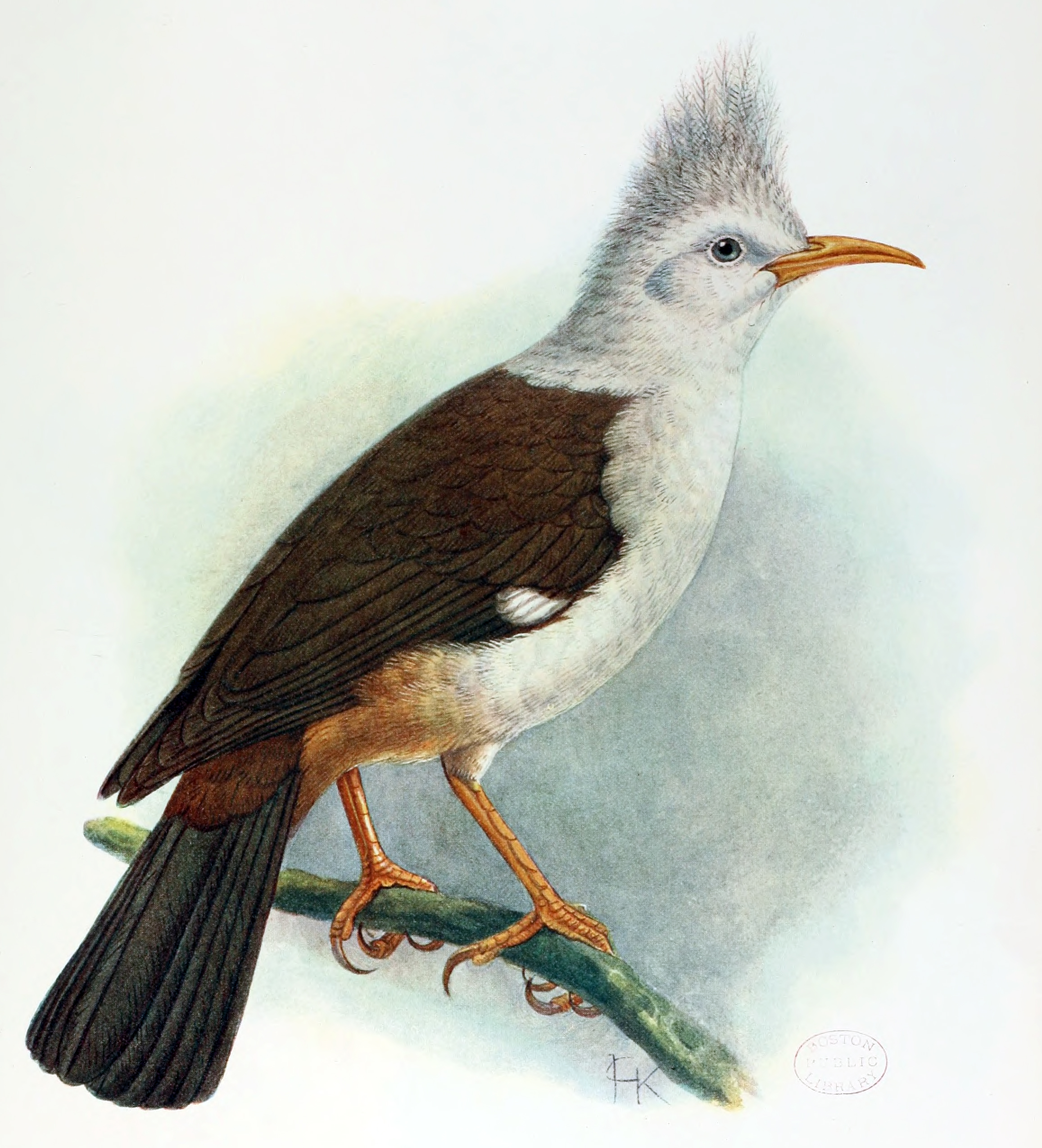 Fregilupus varius Chromolithograph (37 x 27.5 cm)